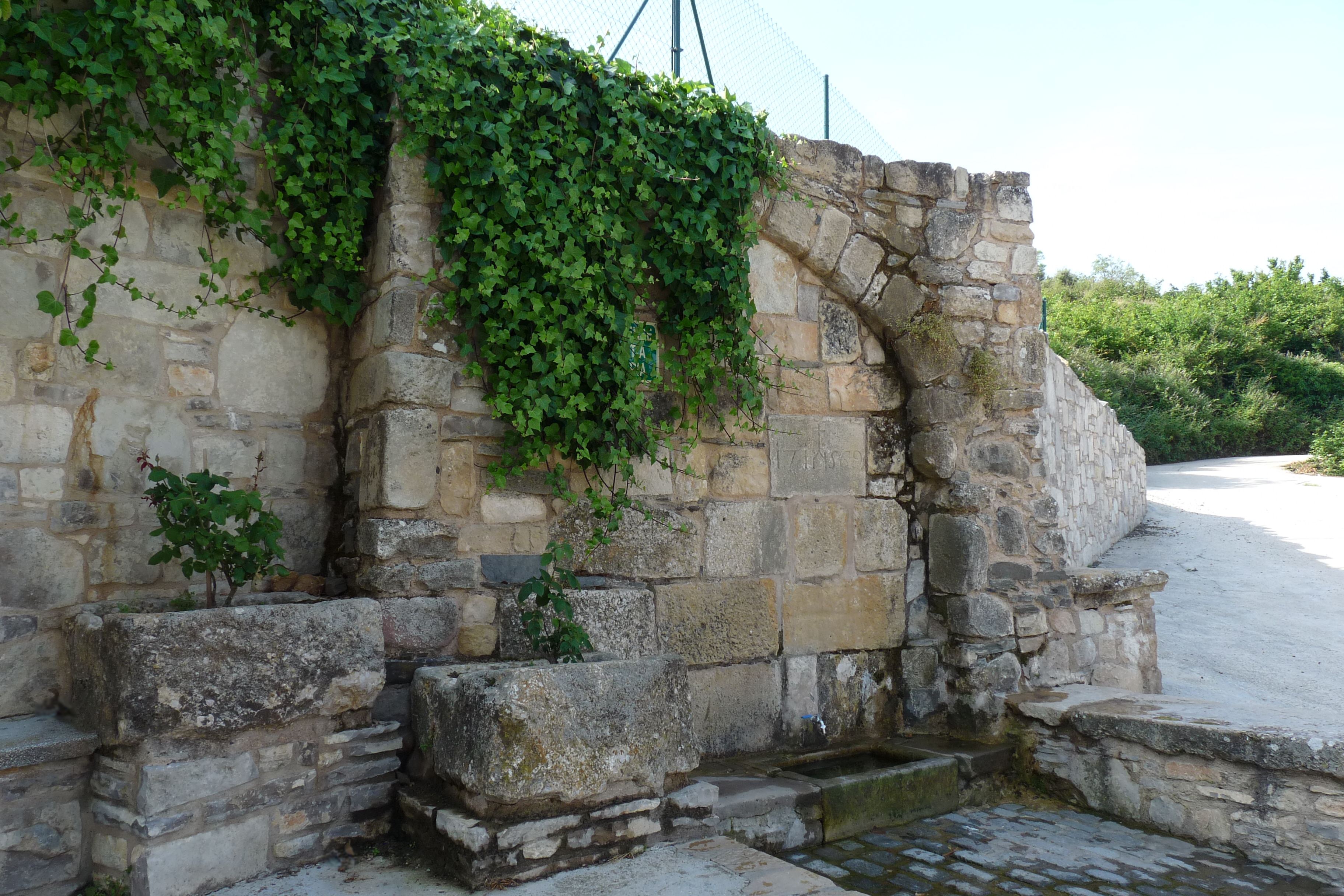 Font Vella in Vilanova de Prades